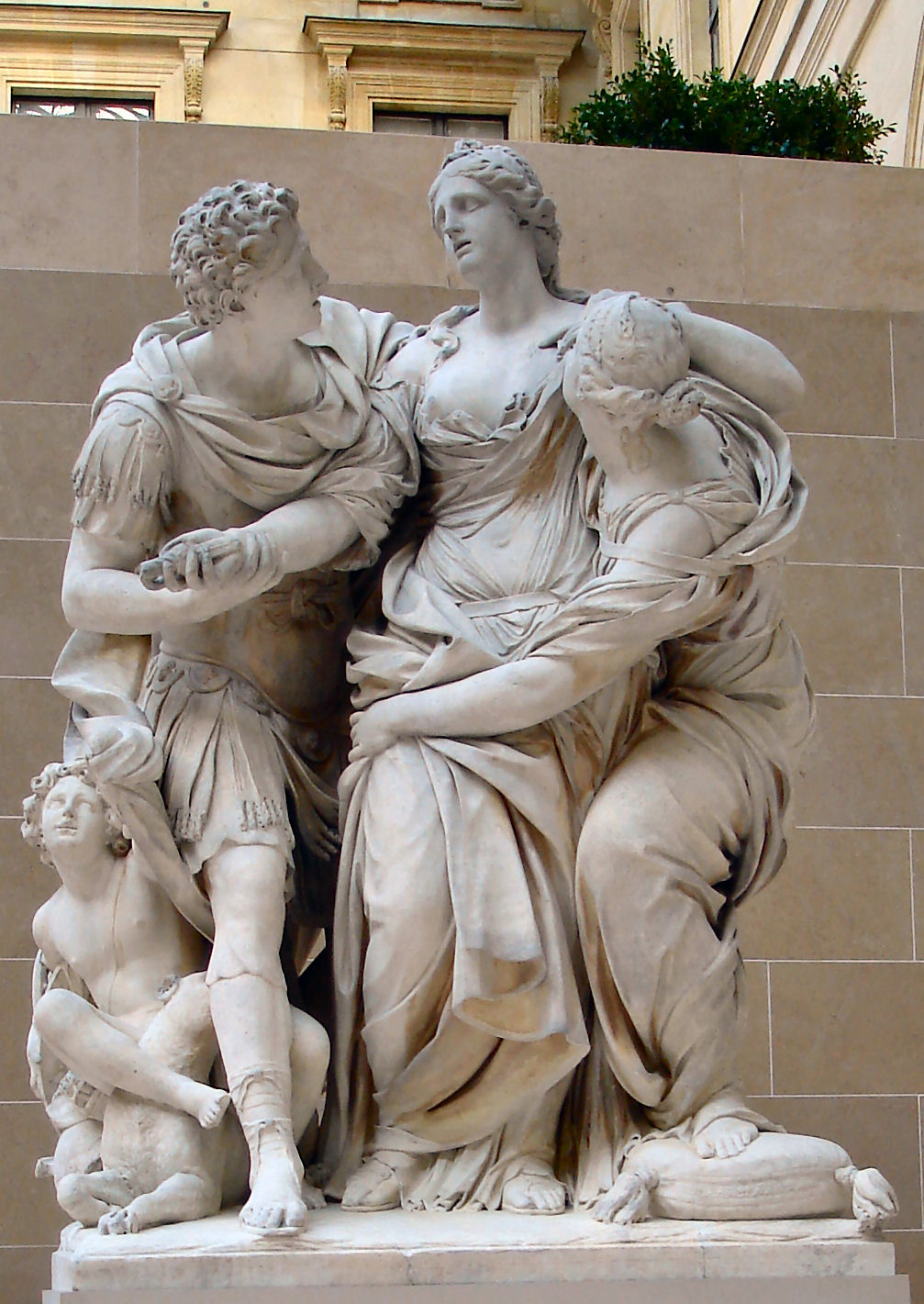 Marble, H. 2.65 m; W. 1.73 m; D. 1.30 m